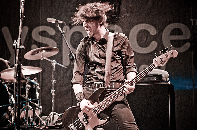 John Calabrese, bass player in Danko Jones